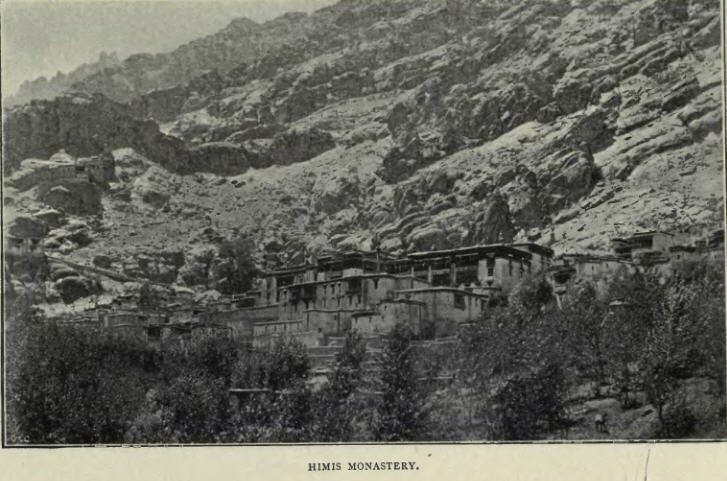 Hemis monastery